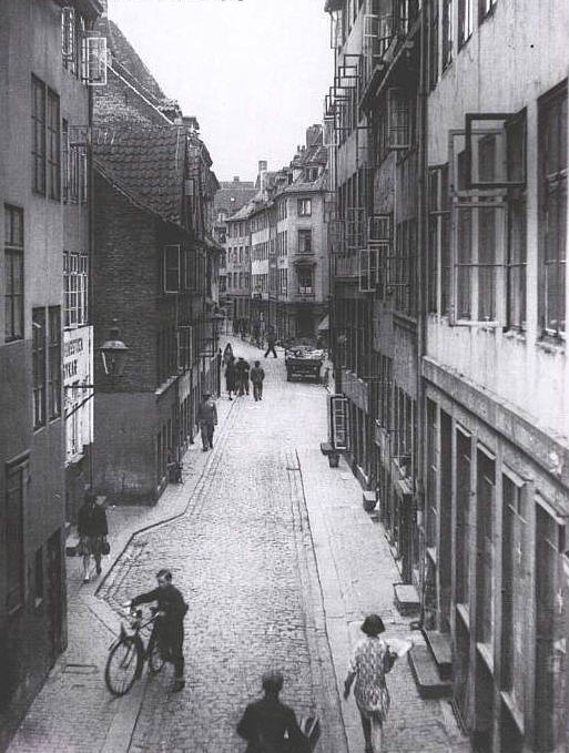 Holmensgade (now Bremerholm) in Copenhagen, Denmark